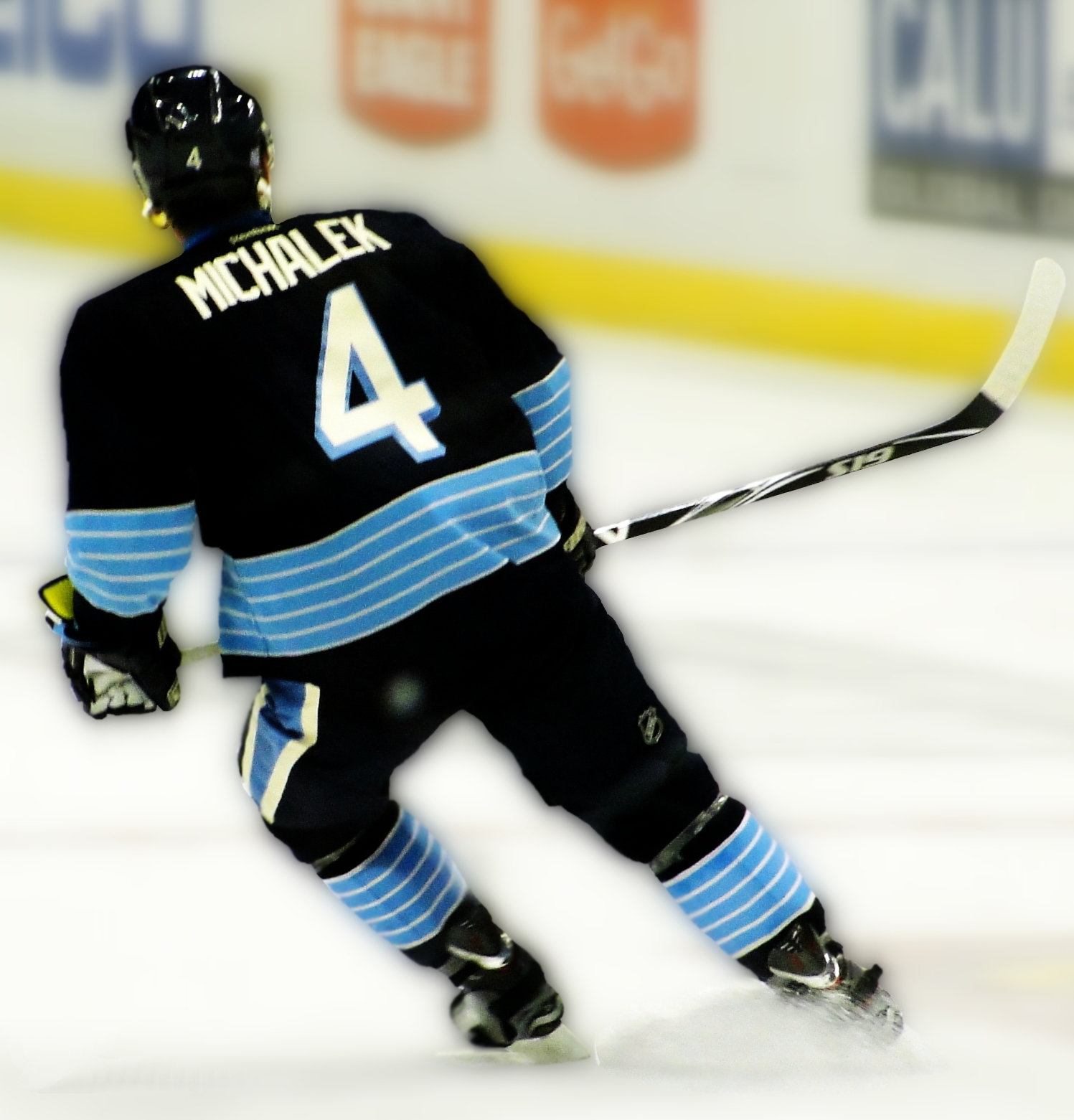 Zbynek Michalek of the Pittsburgh Penguins during a game against the Buffalo Sabres at Consol Energy Center in Pittsburgh, PA. October 15, 2011.